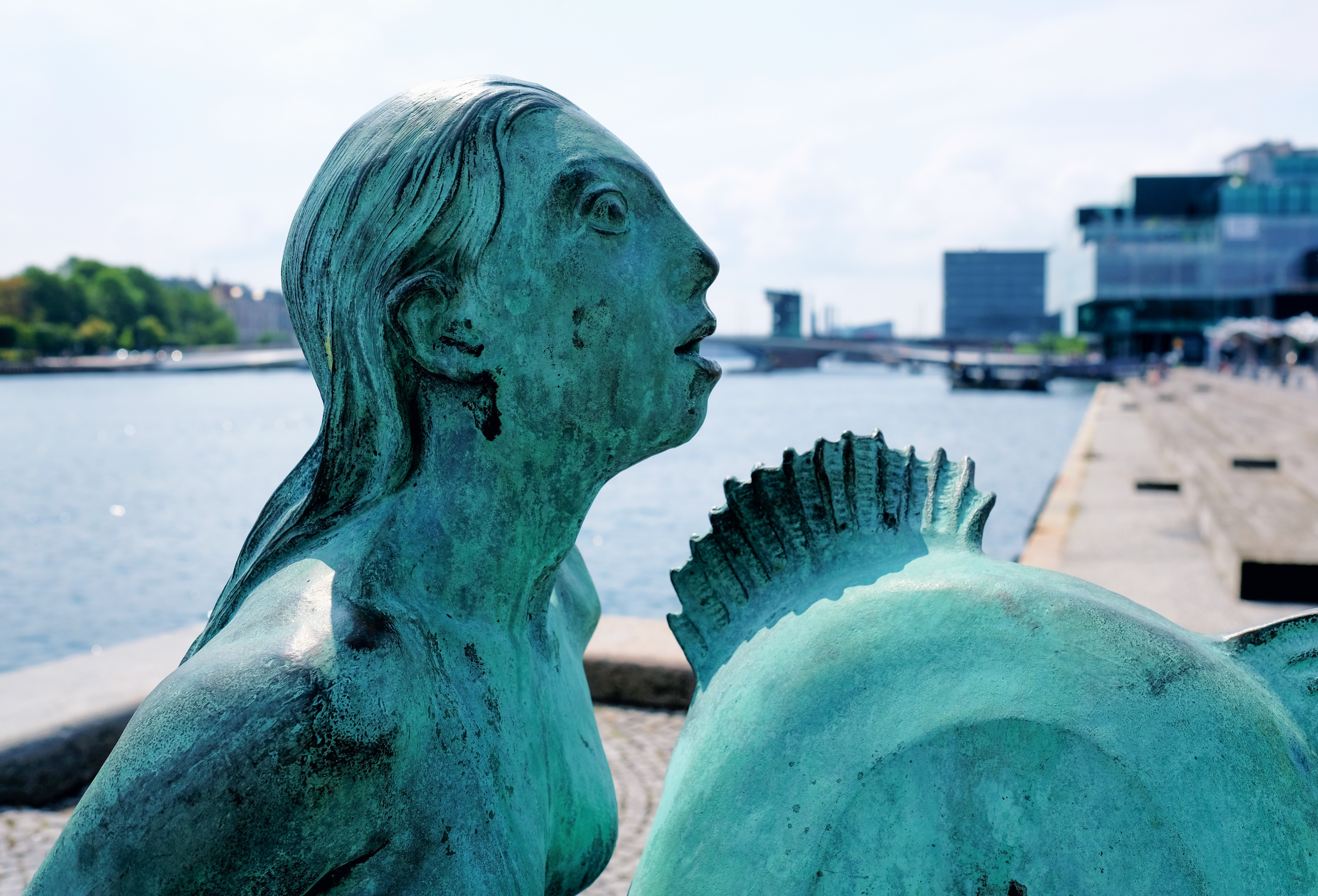 Detail of the Mermaid statue at Christians Brygge in Copenhagen, Denmark